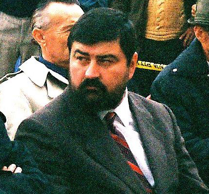 A photo of Dušan Zelenbaba taken sometime in Srb, Lika, Croatia in 1990.